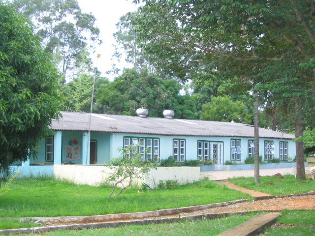 Oldest constructions in Bona Espero, Brazil